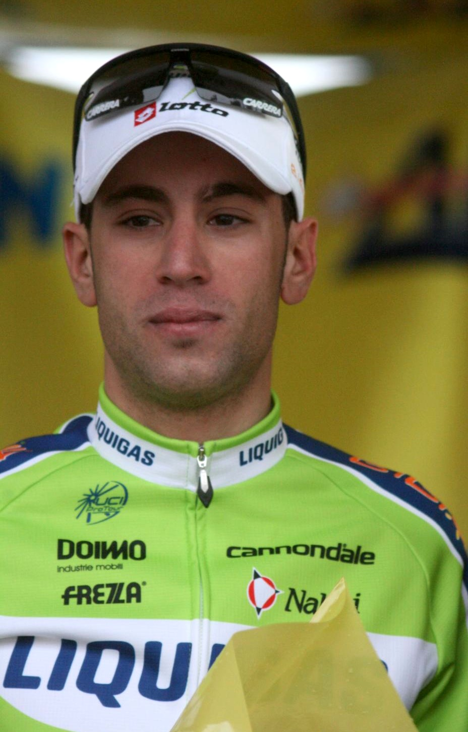 Tour of California, stage 1. Podium